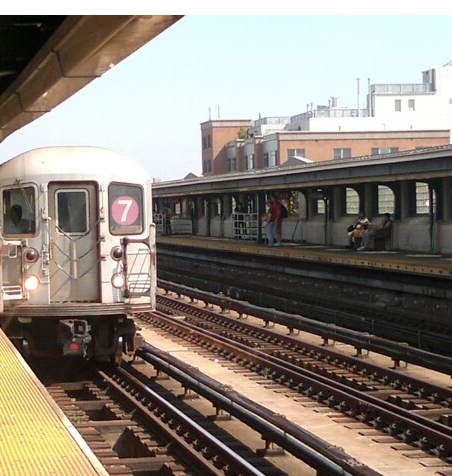 7 Train from the 40th Street – Lowery Street Station